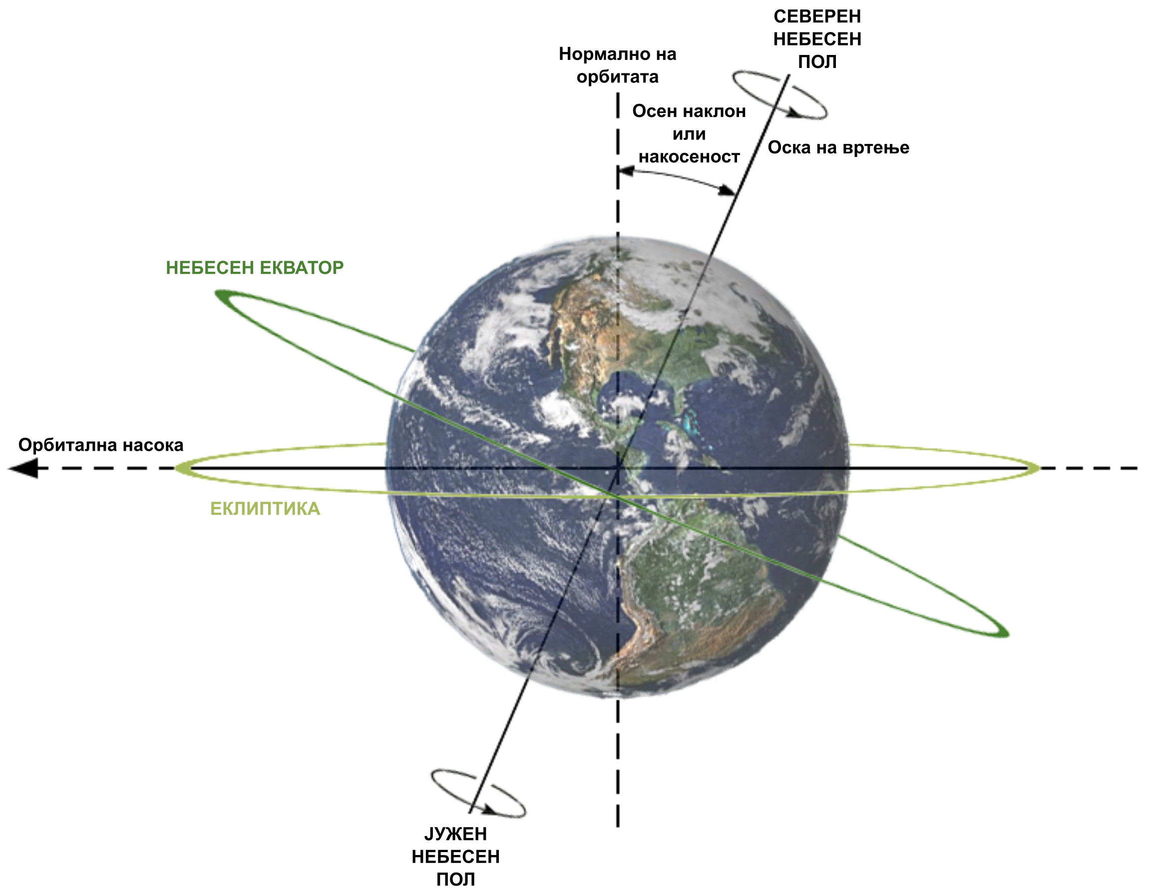 Description of relations between Axial tilt (or Obliquity), rotation axis, plane of orbit, celestial equator and ecliptic (in Macedonian